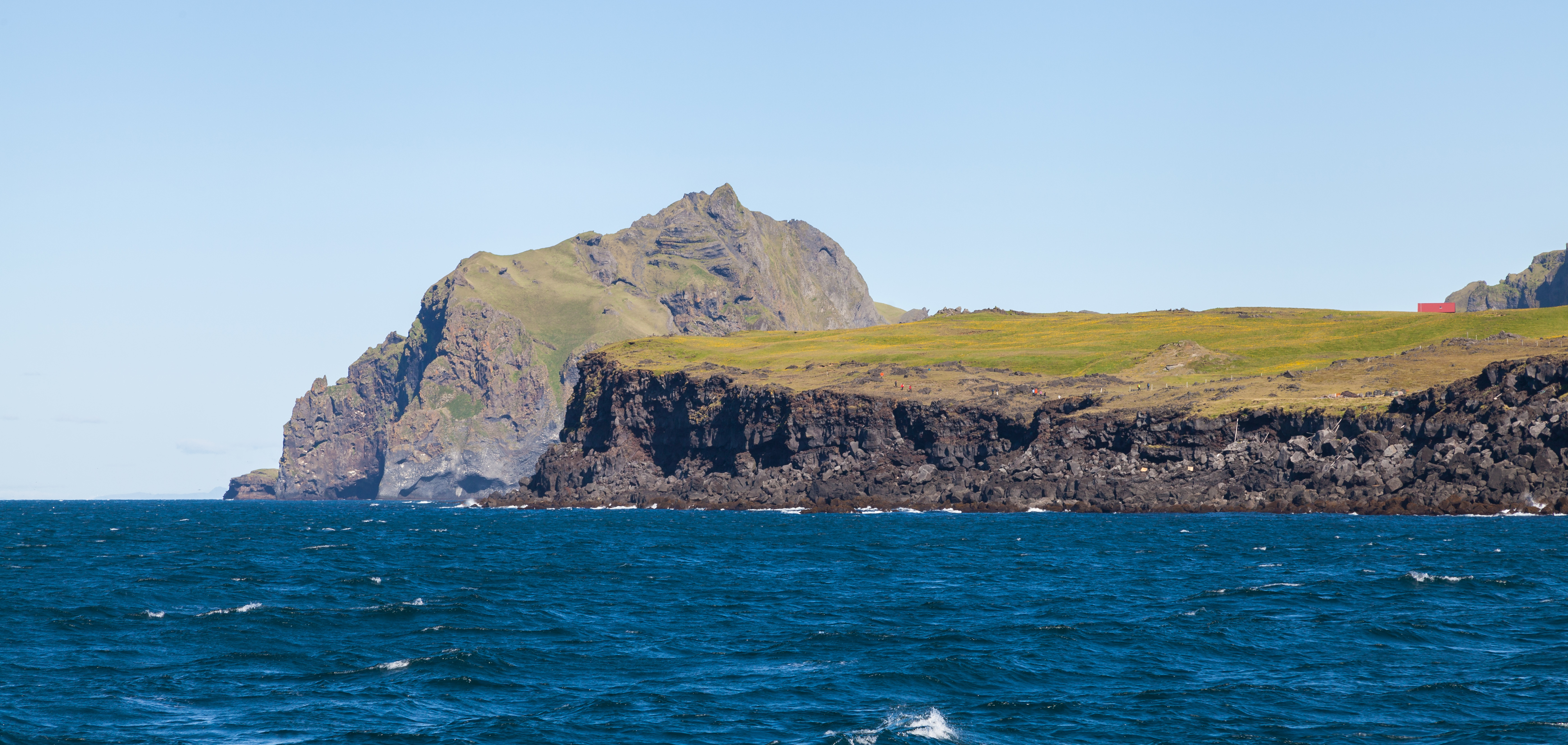 Cliffs of Heimaey, Westman Islands, Suðurland, Iceland